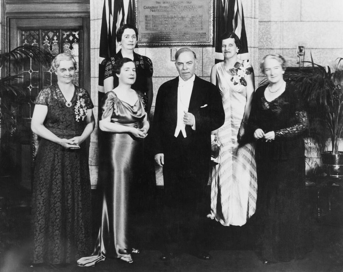 Rt. Hon. W.L. Mackenzie King and guests unveiling a plaque commemorating the five Alberta women whose efforts resulted in the Persons Case, which established the rights of women to hold public office in Canada (Ottawa, Ontario) [Front, L-R]: Mrs. Muir Edwards, daughter-in-law of Henrietta Muir Edwards; Mrs. J.C. Kenwood, daughter of Judge Emily Murphy; Hon. W.L. Mackenzie King; Mrs. Nellie McClung. [Rear, L-R]: Senators Iva Campbell Fallis, Cairine Wilson